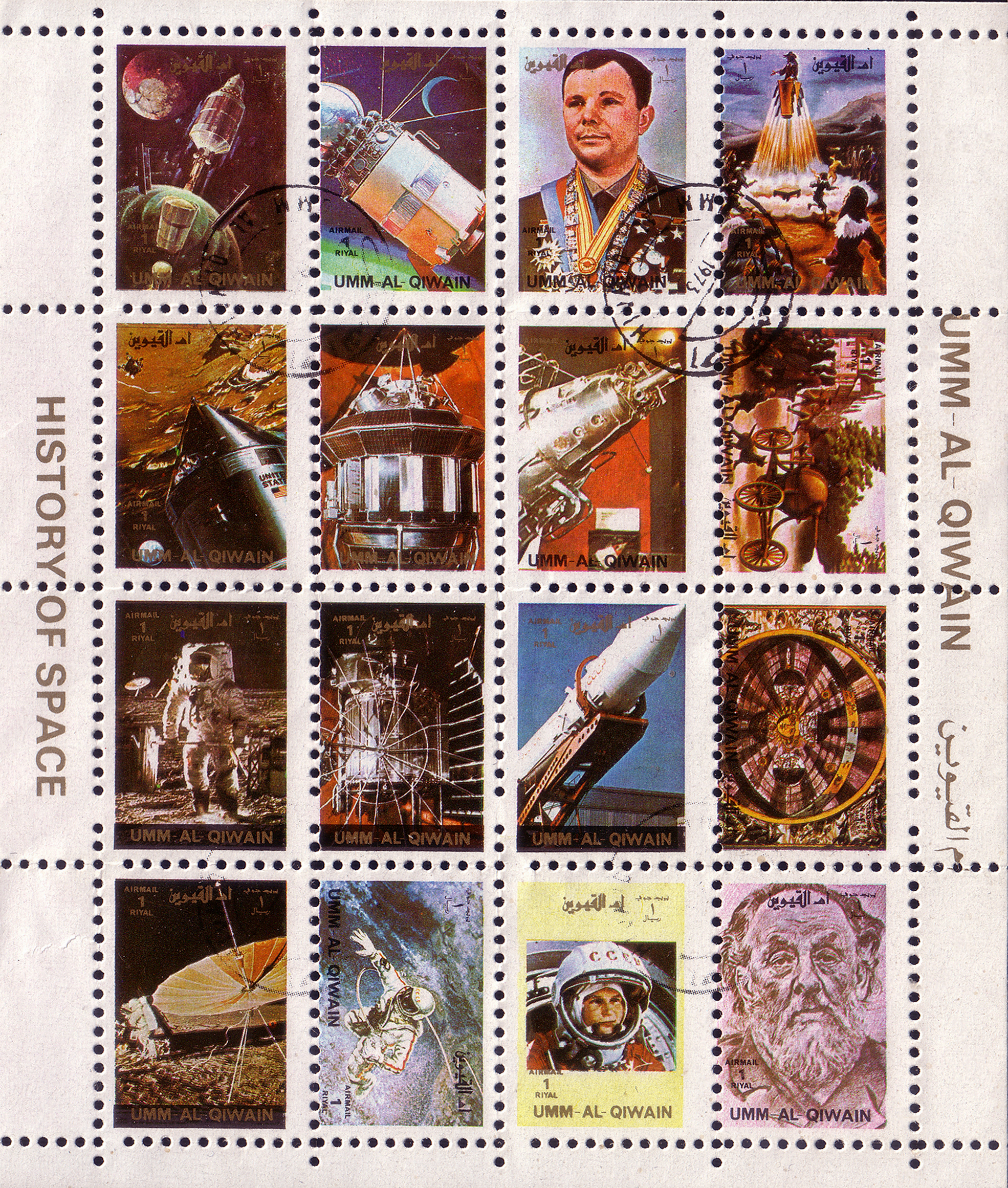 Sheet of stamps of Umm-al-Qiwain (UAE), History Of Space series, Soviet space exploration, 1973